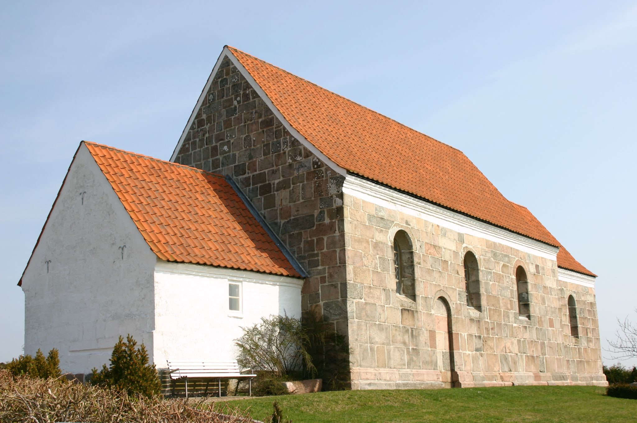 Parish Church of Dollerup, Viborg, Denmark Dollerup Kirke ved Viborg